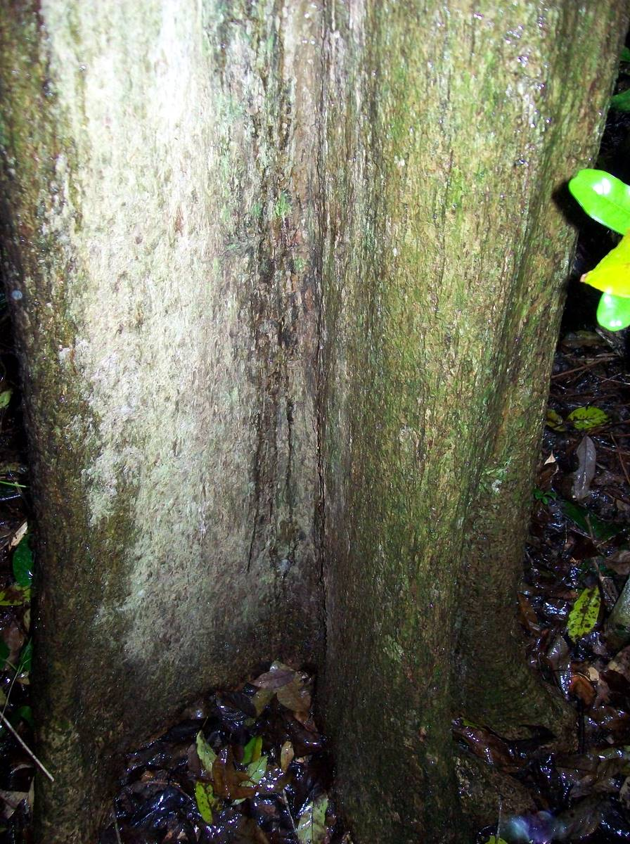 Ehretia acuminata at Booyong Flora Reserve, NSW Australia